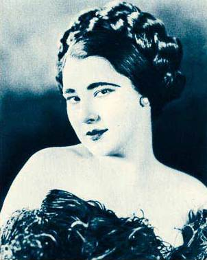 Publicity photo of Nita Naldi from Stars of the Photoplay. Nita Naldi is one of the most popular of the actresses who today are playing vampire roles. Was formerly a New York chorus girl, and her first screen appearance was in "Dr. Jekyll and Mr. Hyde." Since that time she has played in a number of productions, among them being "You Can't Fool Your Wife," "Glimpses of the Moon," "Anna Ascends," and "Lawful Larceny." She is also seen in "The Ten Commandments." Was born in New York City in 1899, and educated in a Hoboken, New Jersey, convent. Weighs 136 pounds, is five feet, eight inches tall, and has dark hair.